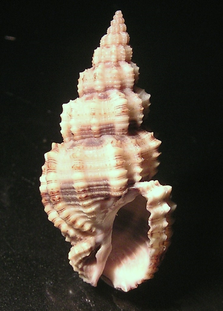 Phos muriculatus Sowerby, 1859, a true whelk from the family Buccinidae; South China Sea Category:Buccinidae